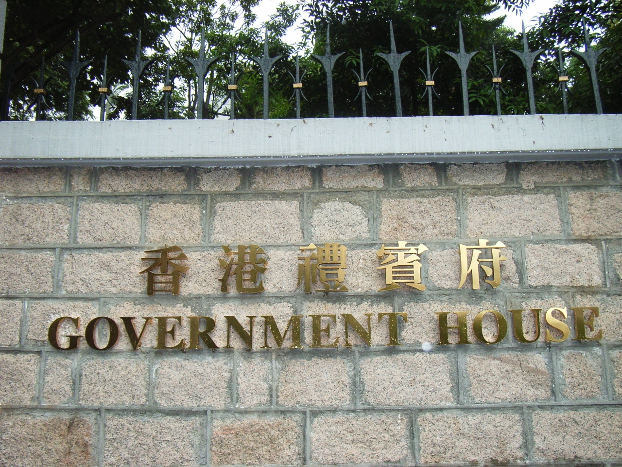 HKSAR, Government House, Hong Kong